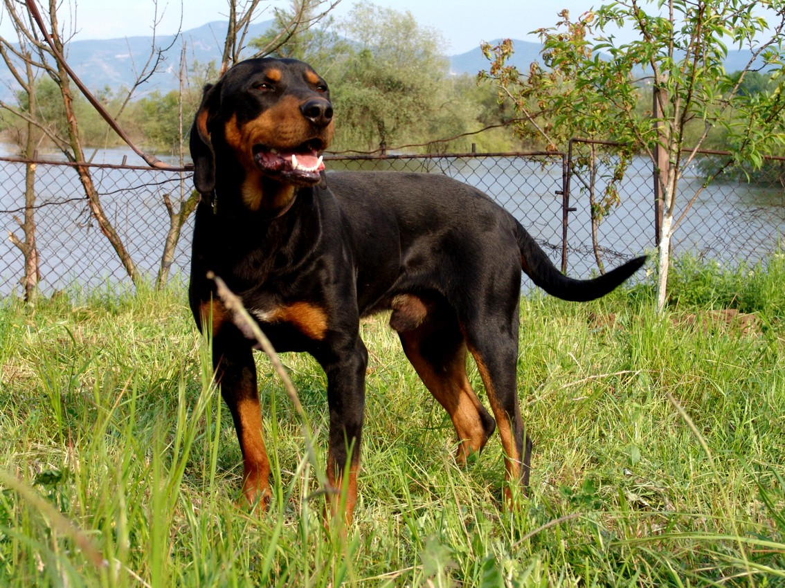 Bulgarsko gonche